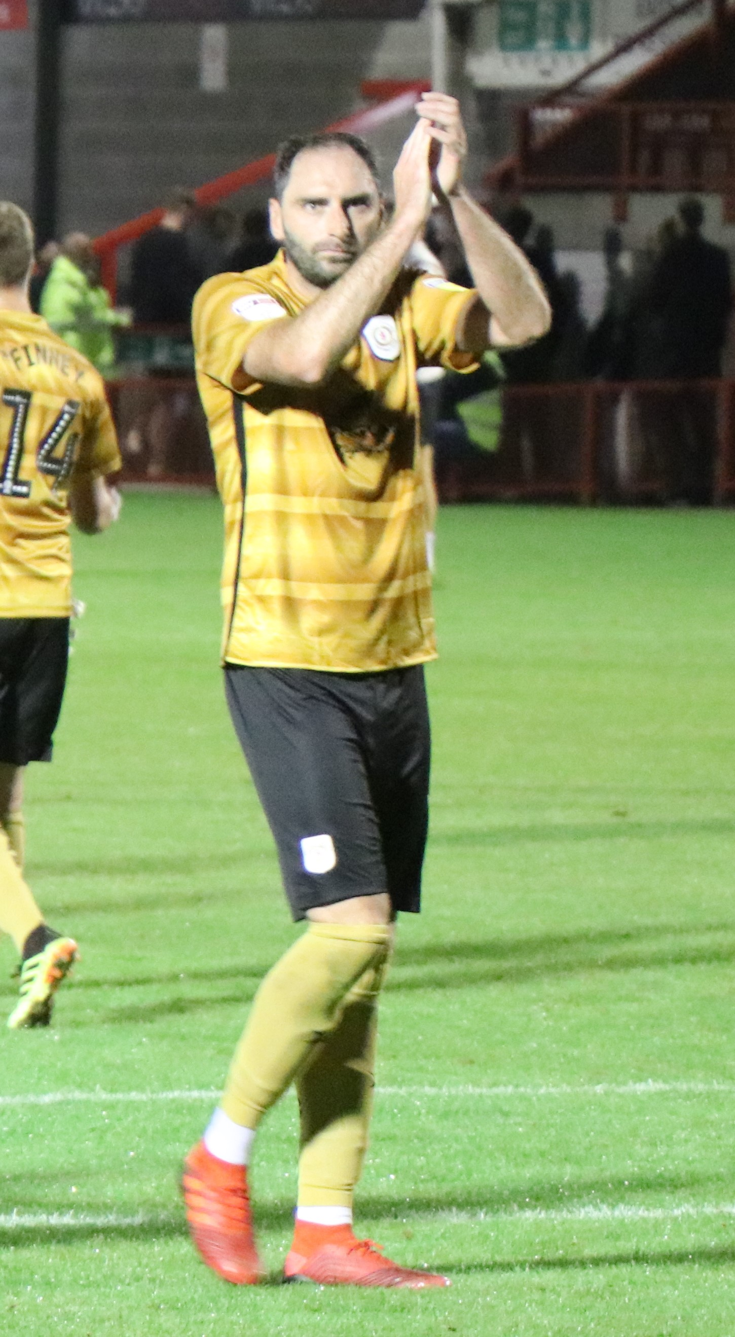 Crewe Alexandra footballer Nicky Hunt celebrates a win at Crawley Town